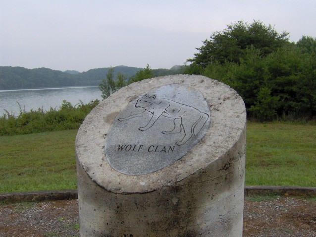 The Wolf Clan pillar at the Chota Monument in Monroe County, Tennessee, in the southeastern United States. This pillar is one of eight pillars representing the seven Cherokee clans and the Cherokee Nation. The monument rests directly above Chota's ancient townhouse.